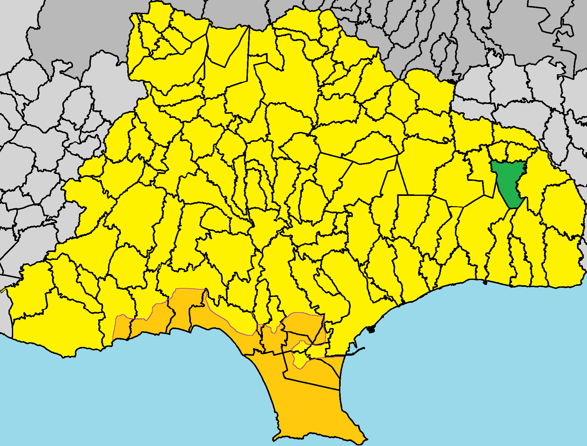 Sanida in Limassol District.